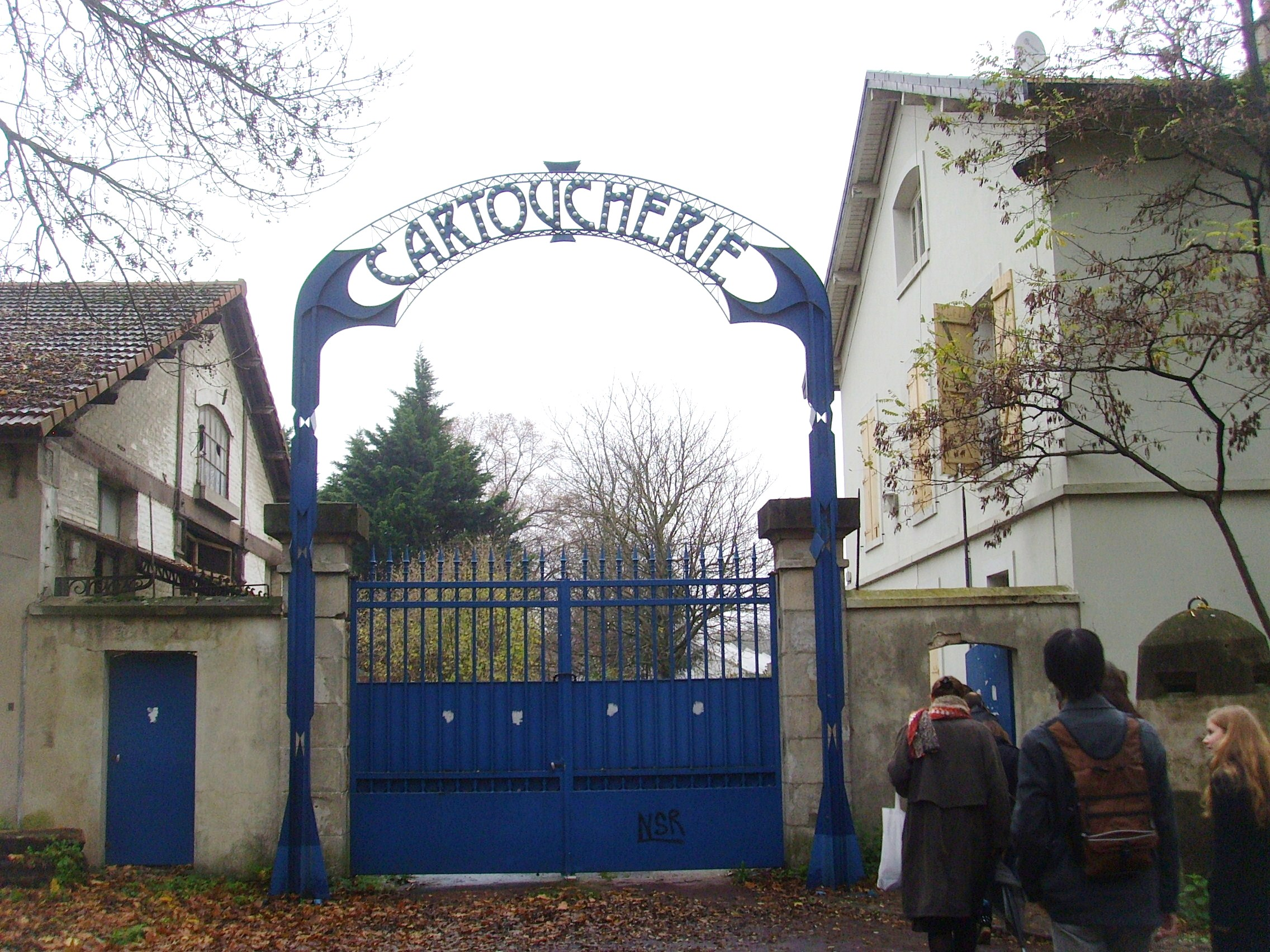 The entrance to the complex